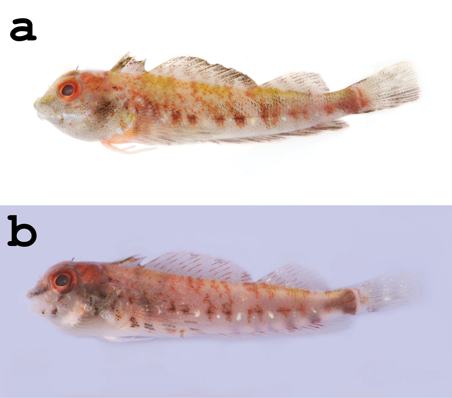 Helcogramma williamsi, Feng-chui-sha, Pingtung, Taiwan. (a) Holotype, NTOU-P 2012-02-002, male, 27.5 mm SL. (b) Paratype, NTOU-P 2012-02-005, female, 21.3 mm SL.